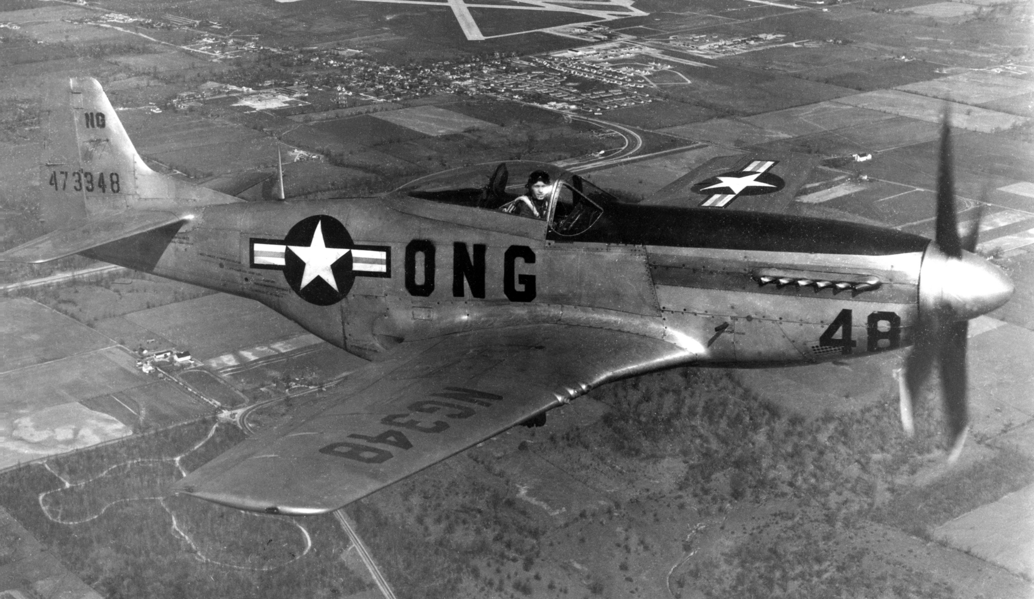 A U.S. Air Force North American F-51D-25-NA Mustang (s/n 44-73348) from the 162nd Fighter Squadron, Ohio Air National Guard. The 162nd FS flew the Mustang from 1947 to 1955.